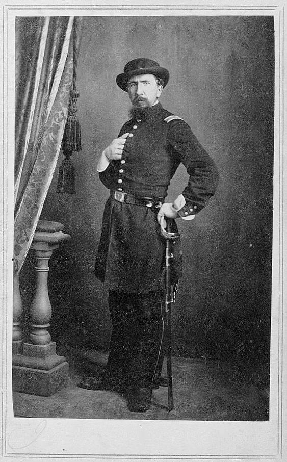 Lieutenant Julius Richardt of the 24th Illinois Regiment (Union Army)